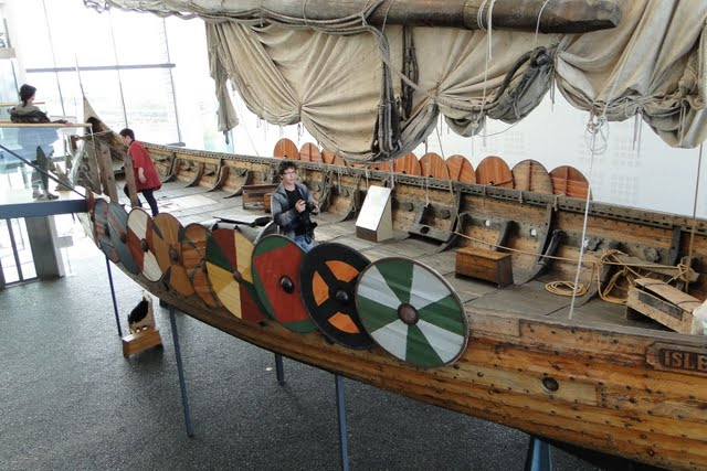 Islendingur in museum